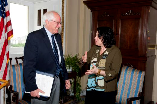 Senator Bernie Sanders of Vermont with Supreme Court nominee Sonia Sotomayor.